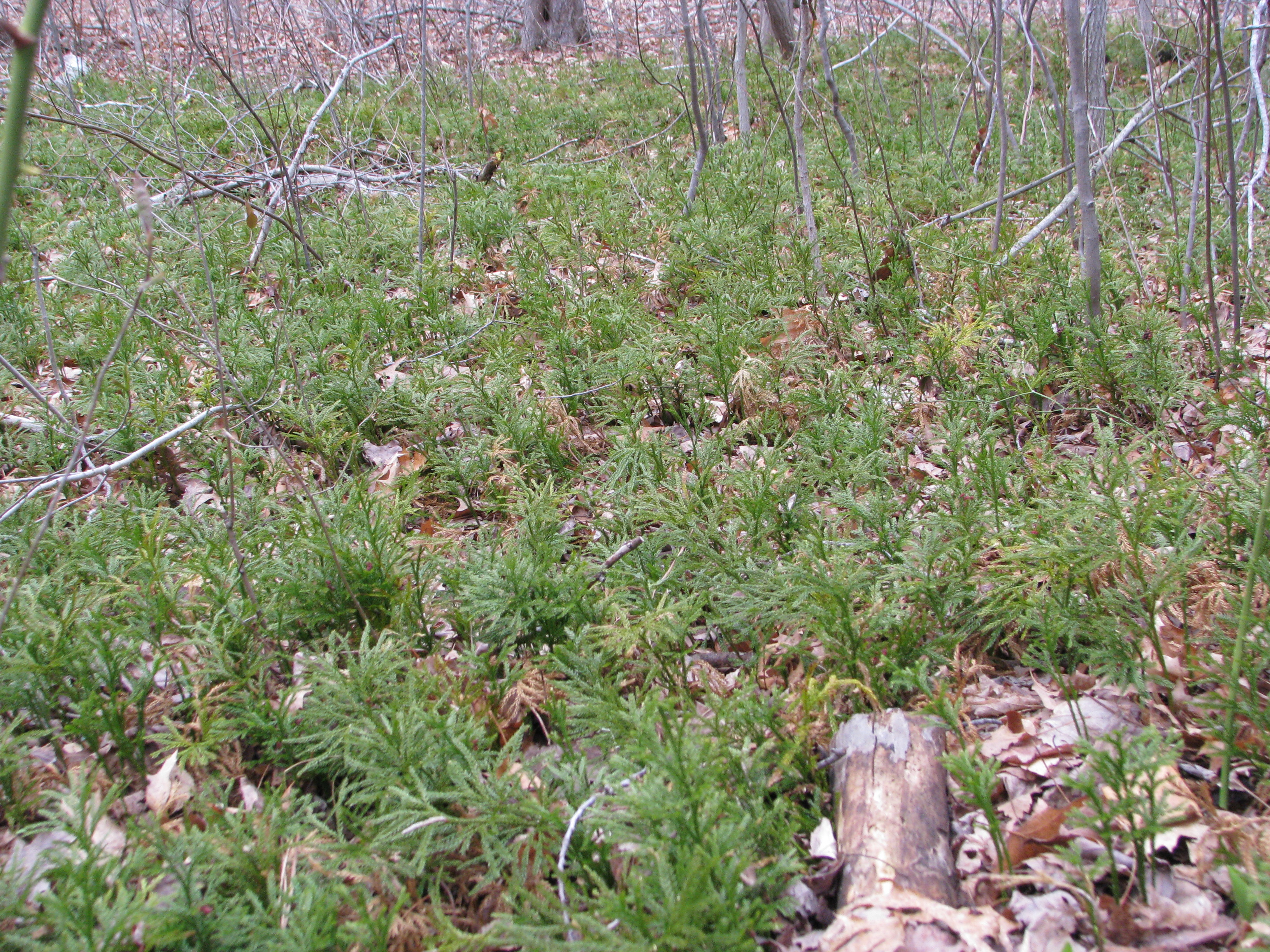 A stand of young shoots of Lycopodium obscurum. No strobili visible.